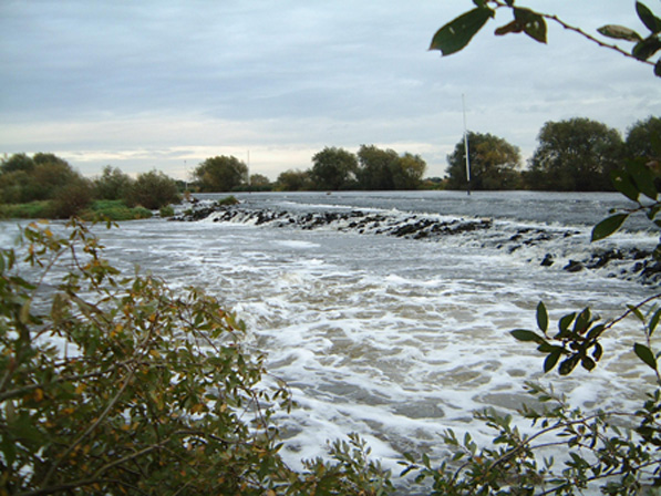 Averham weir At a medium high water level